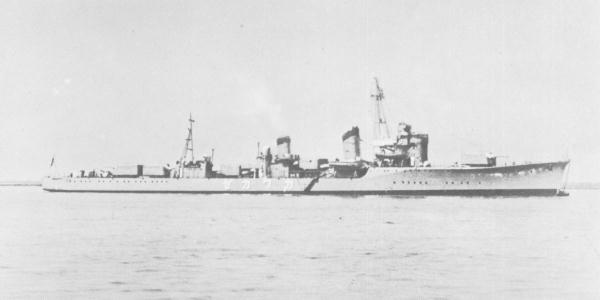 Japanese Shiratsuyu-class destroyer KAWAKAZE.